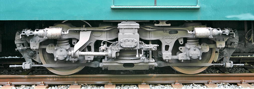 Sumitomo Metal Industries type FS-327A bogie truck of Keihan 2600 Series EMU ( 2823 ).